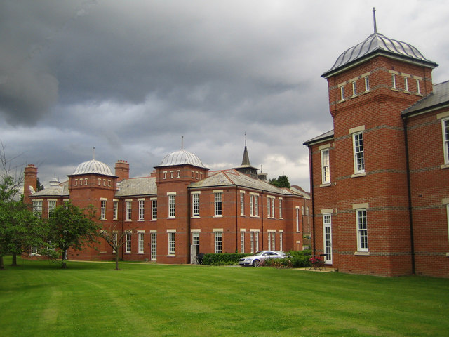 London Colney: Napsbury Park In the distance on the left is one of the wards of the former Napsbury Hospital which was called the Middlesex County Lunatic Asylum when it was first built. It has been converted into residences by Crest Nicholson. I think that, looking at the Google Earth images of the site which currently show it before its conversion, the block on the right is new, but built in the style of the existing buildings.